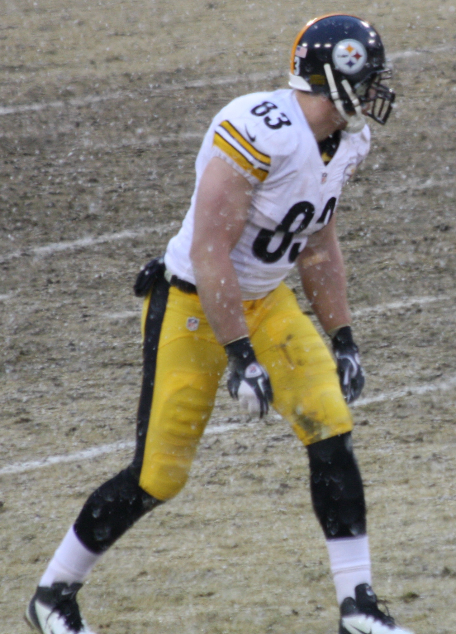 Pittsburgh Steelers tight end Heath Miller prepared for a snap at wideout.